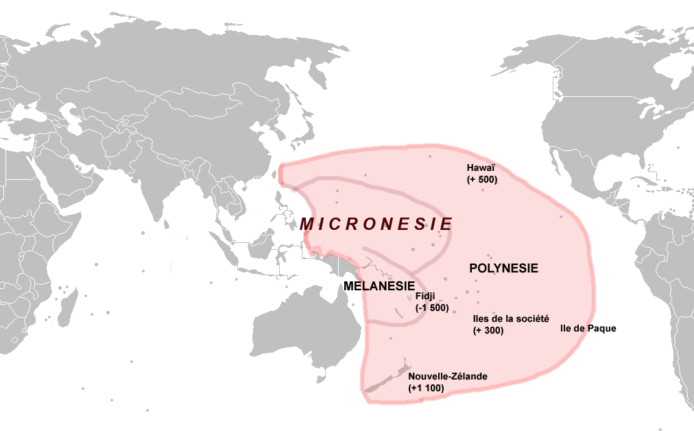 Pacific map, with focus on Micronesia (French). This pieced Pacific-centered map need to be replaced with one based on File:Blank map of the world (Robinson projection) (162E).svg or File:Indo-Pacific biogeographic region map-en.svg.